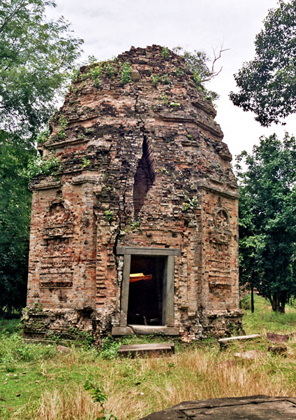 N7 Sanctuary. Sambor Prei Kuk. Cambodia